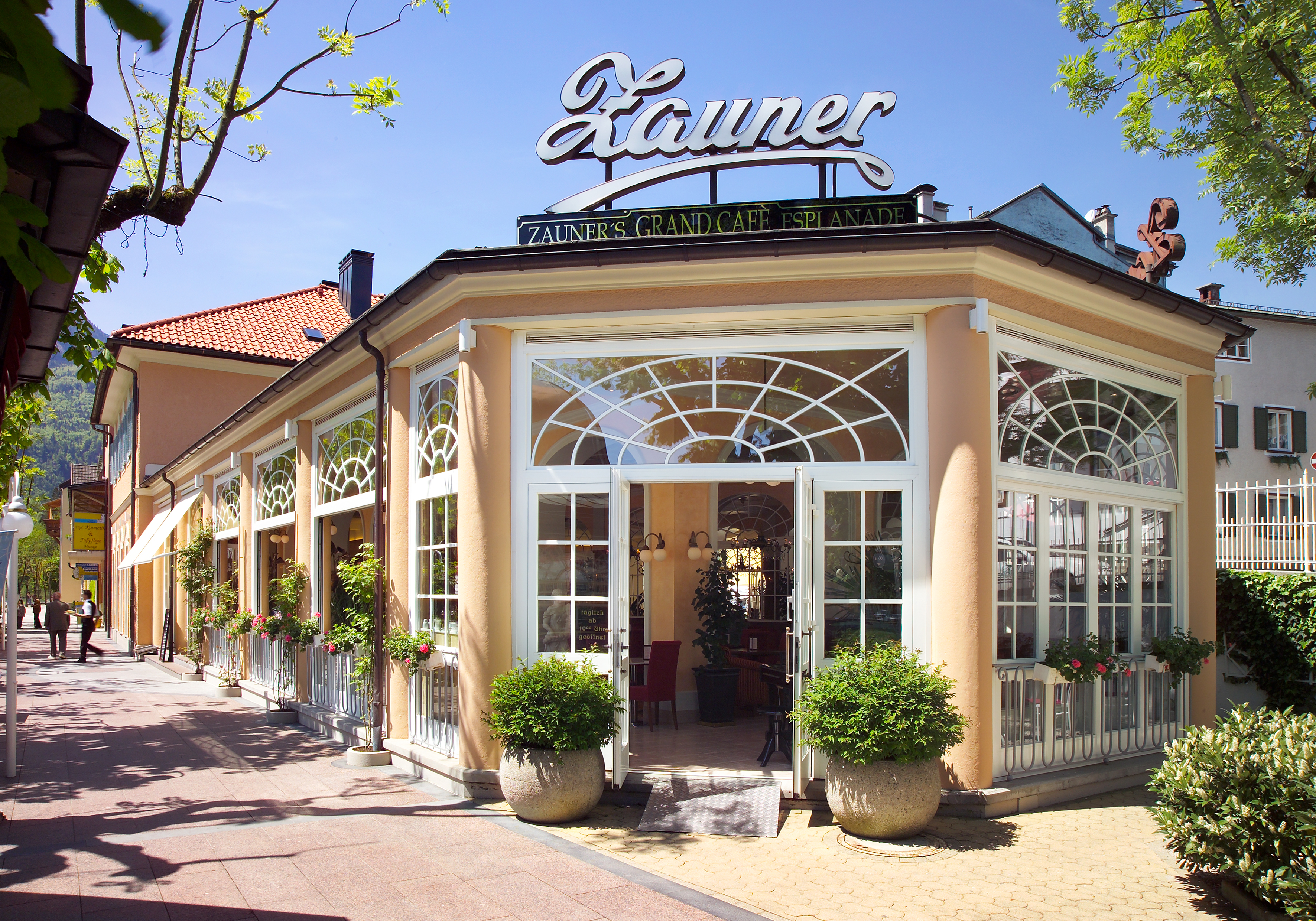 Zauner Esplanade